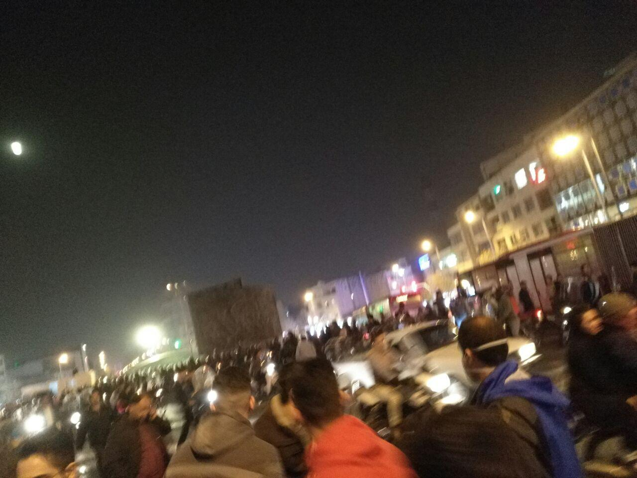 Police are organized and separating people, People do not have weapons or co-ordination, but their number is high. photo1 free to share. Tehran.